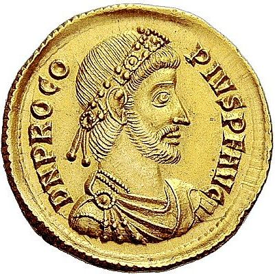 Procopius, 365–366, Solidus, Cyzicus, AV 4.31 g. D N PROCO – PIVS P F AVG Pearl and rosette-diademed, draped and cuirassed bust right. In exergue, SMKΔ. C 5. Depeyrot 5/1 and pl. 28, 5/1 (this coin illustrated). RIC 1.